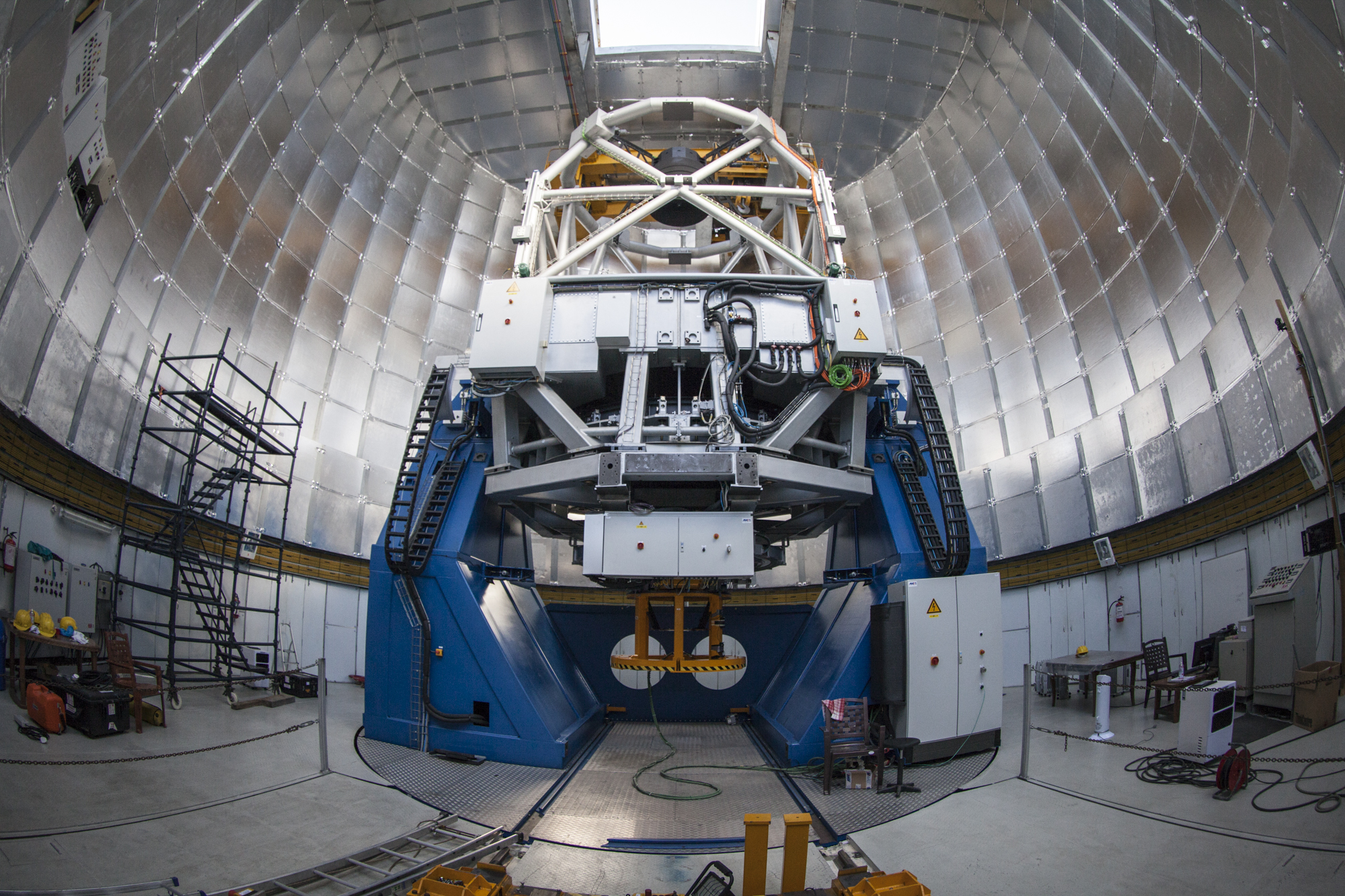 The 3.6 m Ritchey Chretien Telescope at Devasthal, India